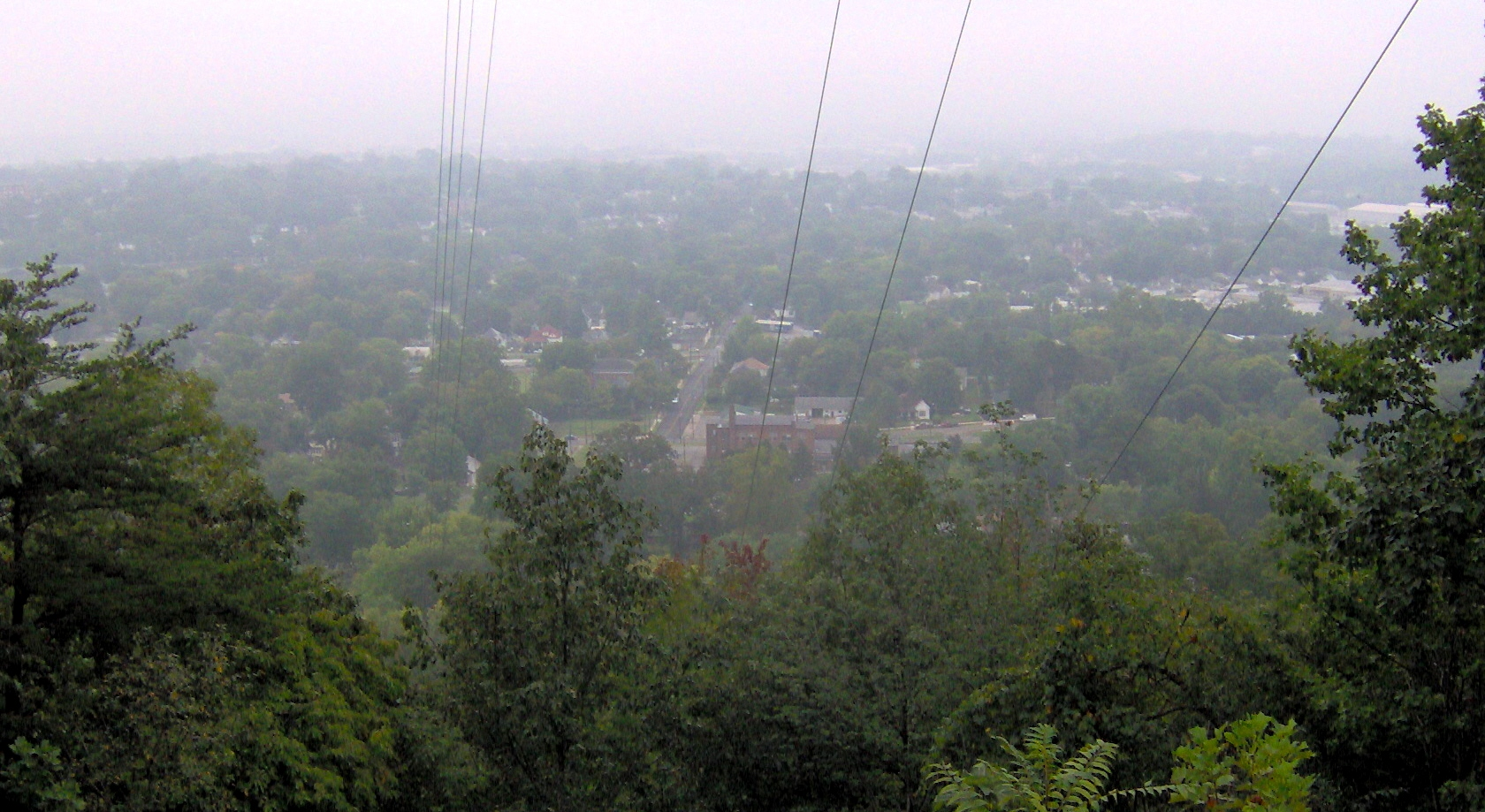 Foggy view of North Knoxville from Sharp's Ridge, in the U.S. state of Tennessee.